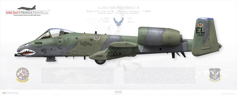 Aircraft Profile Illustration of A-10A Thunderbolt II 23rd FW 74th FS Flying Tigers EL 82-665 - The Last Tiger - by